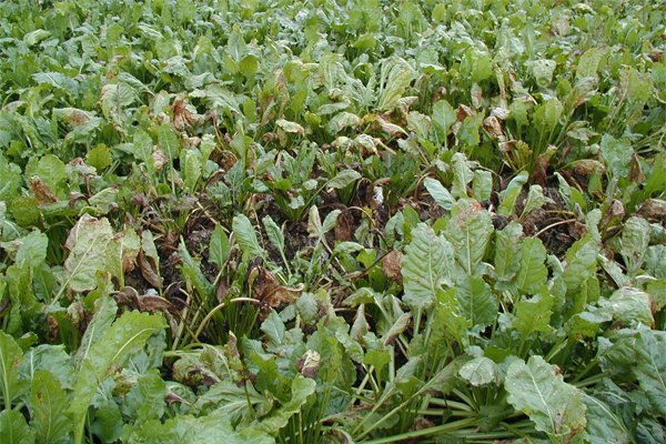 A field of sugar beet - cercospora leaf spot occurs. Photo by Fk. in 2000 or 2001.